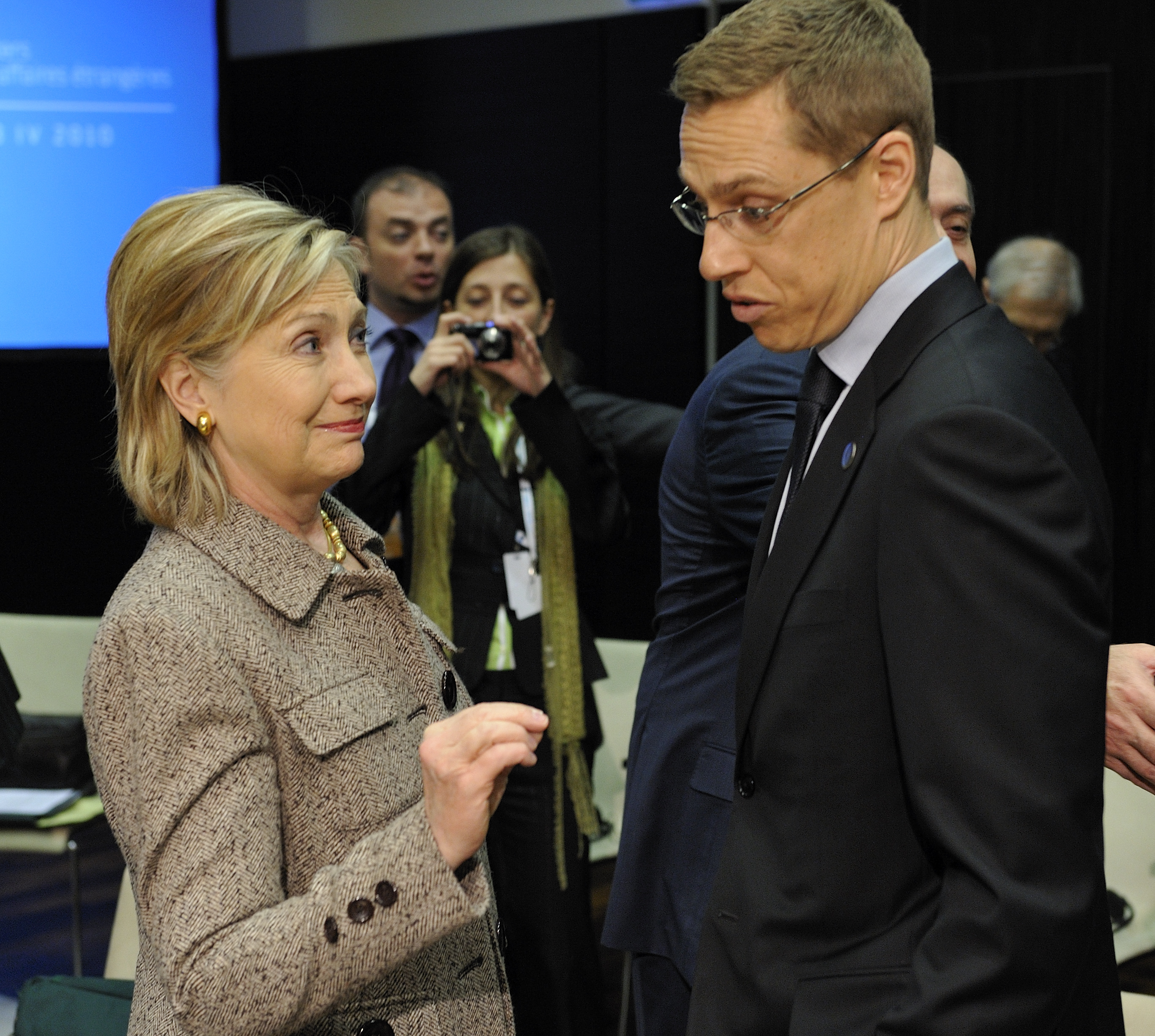 Alexander Stubb and Hillary Rodham Clinton. Informal Meeting of NATO Foreign Ministers in Tallinn